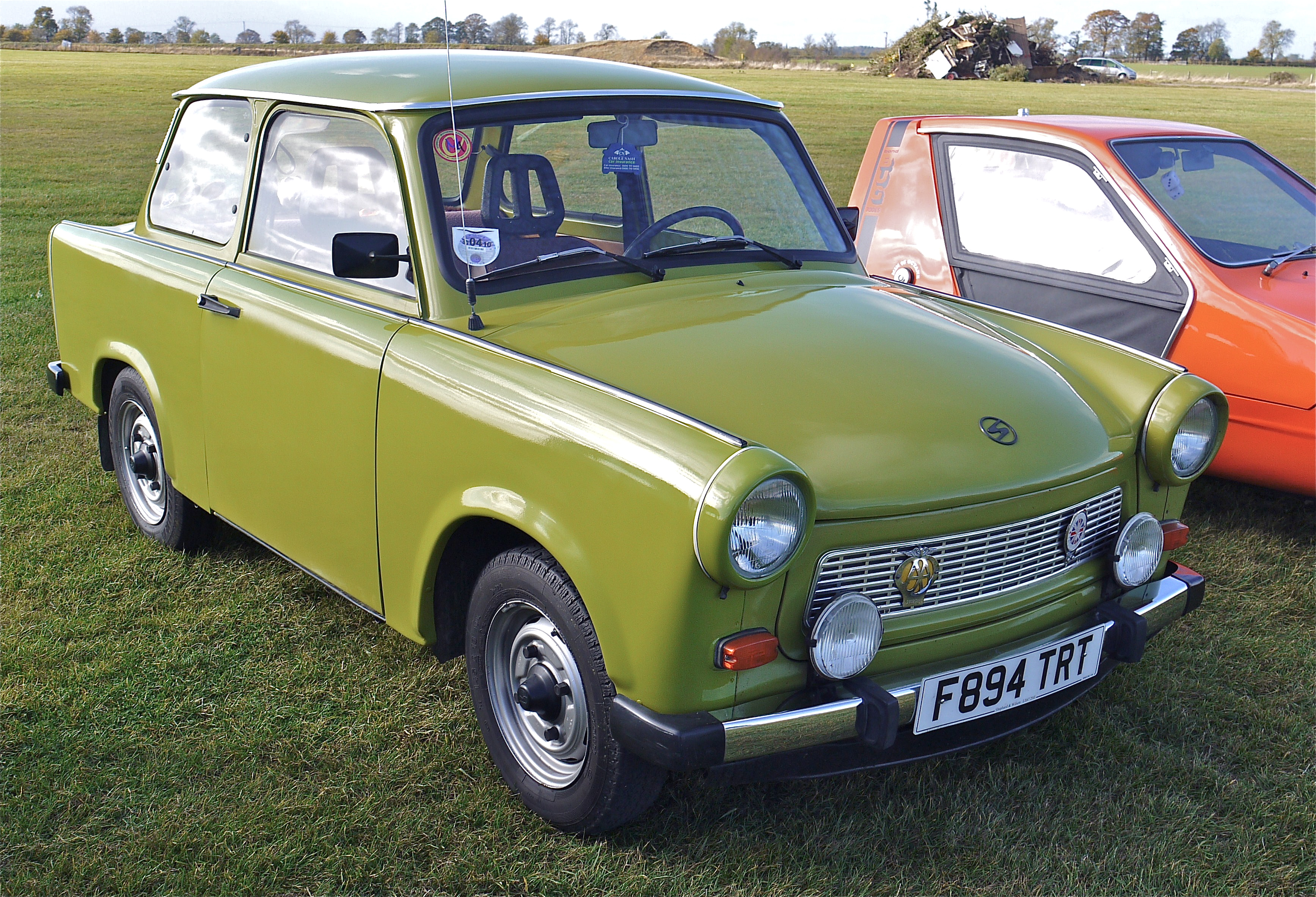 Trabant 2 Stroke Engine Car Panasonic G1 14-45 Lens